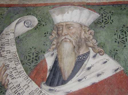 Painting from the courtyard of Fénis Castle in Aosta Valley. Probably by painter Giacomo Jaquerio or his apprentices